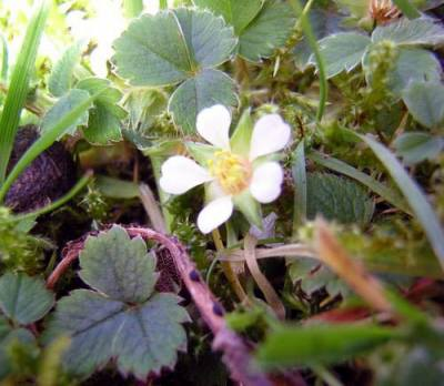 Potentilla sterilis Coutances, Manche, France Source : [1]